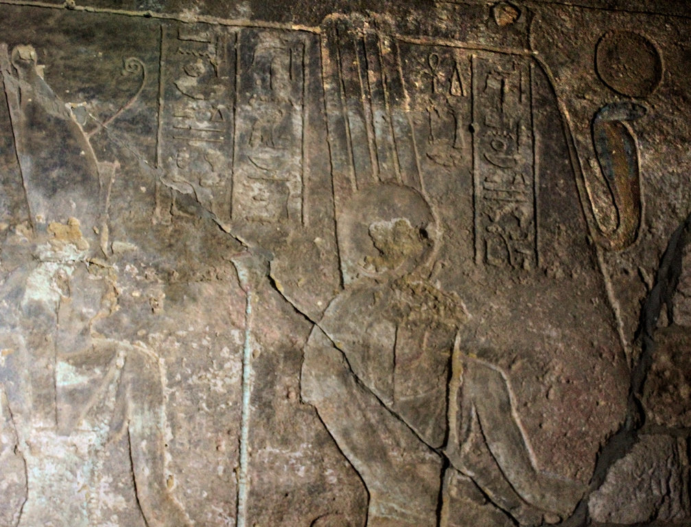 Jebel Barkal Temple of Mut: Amun accompanied by Mut pictured inside Jebel Barkal with the uraeus-pinnacle shown crowned with a sun disk hanging from the cliff